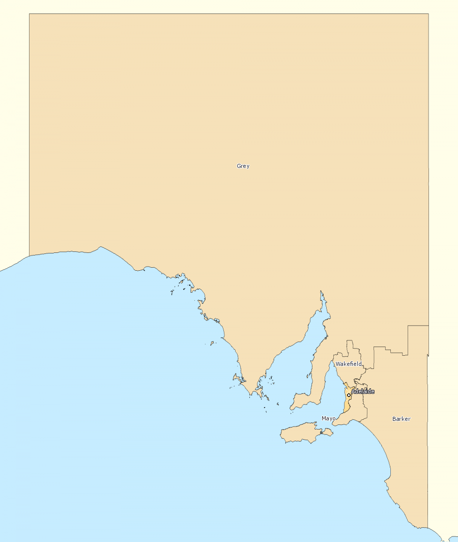 This image incorporates data that is: © Commonwealth of Australia (Australian Electoral Commission) 2009 Rest of South Australia divisions overview 2010